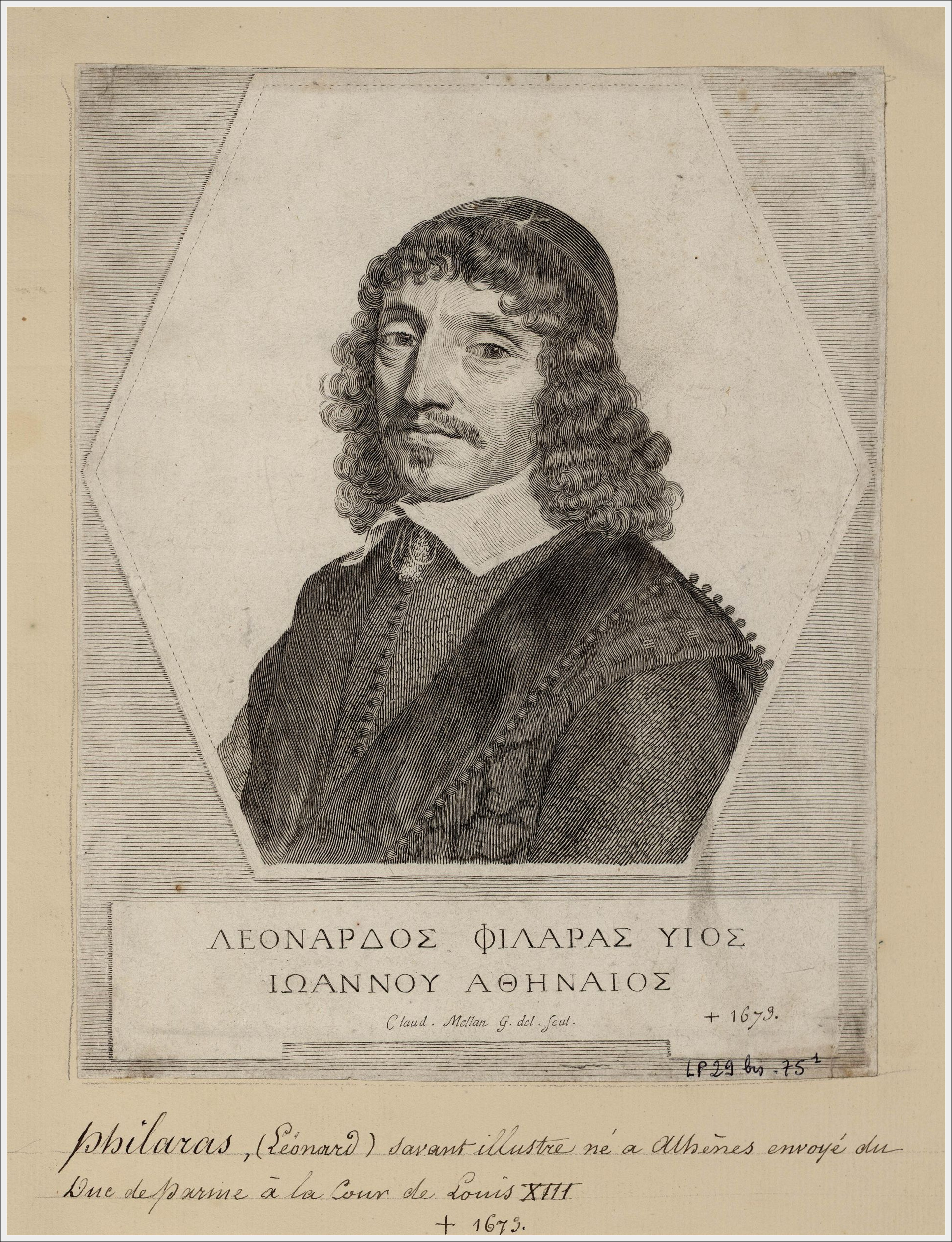 LEONARD PHILARAS (Λεονάρδος Φιλάρας, Leonardos Philaras) also known as VILLERET (c. 1595-1673) Greek scholar, Politician and Advisor to the French court.